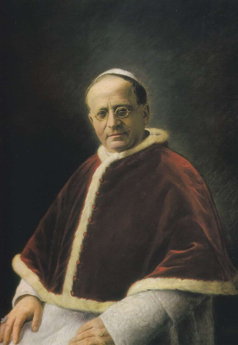 portrait of pope pius XI